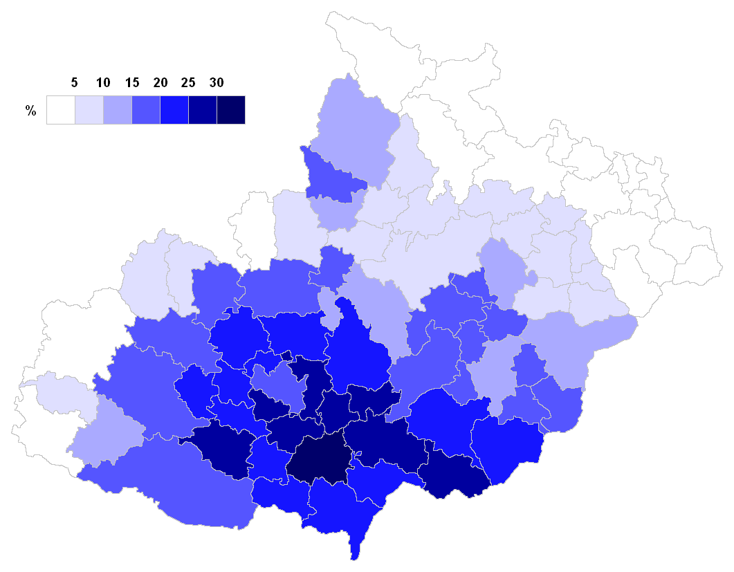 Moravian nationality in districts of municipalities with extended powers by the 2011 census